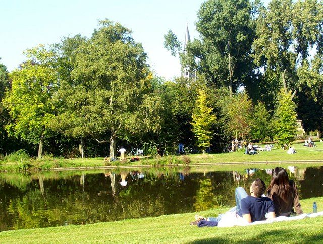 Vondelpark